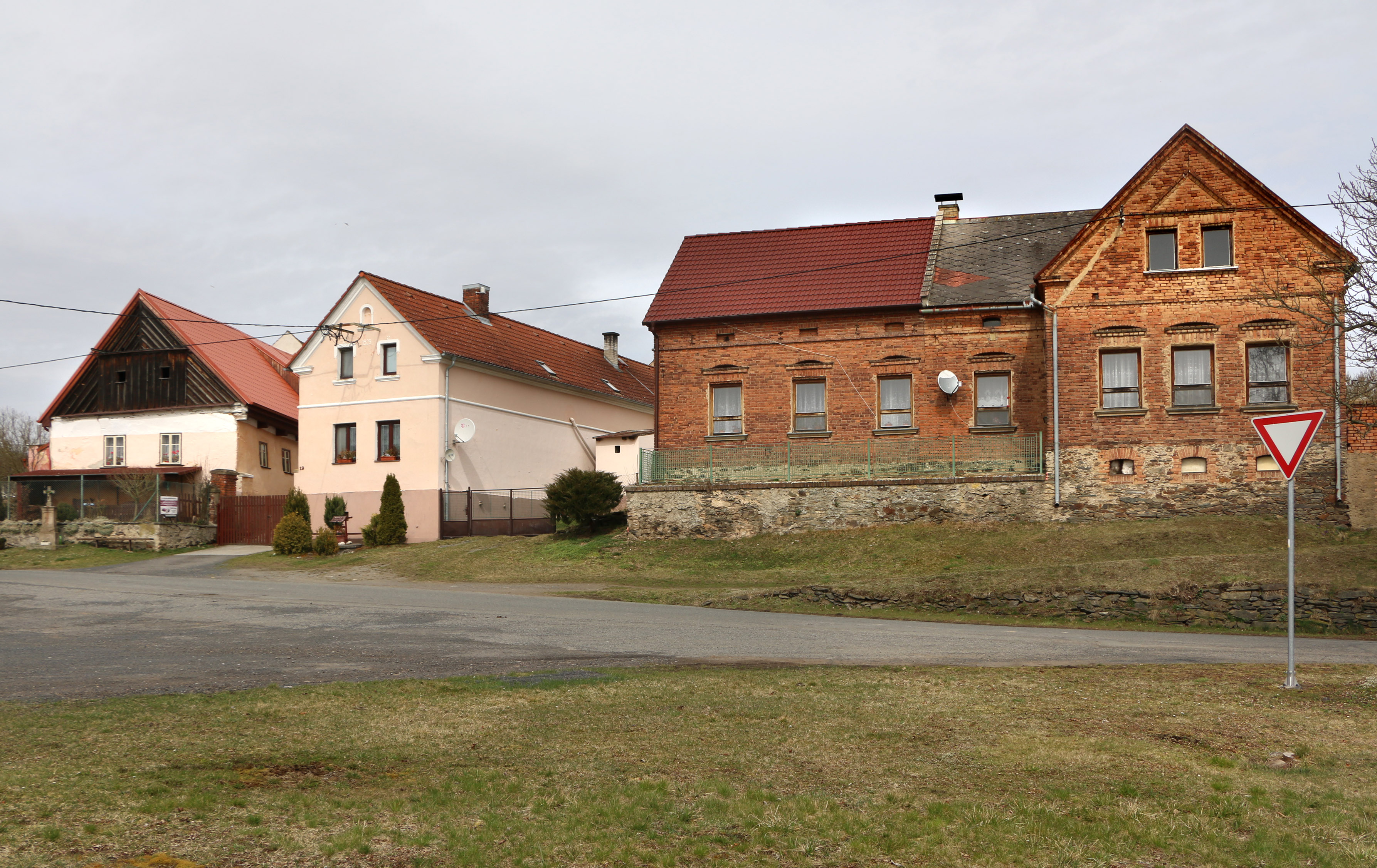 House No 2 in Rozněvice, part of Křelovice, Czech Republic.